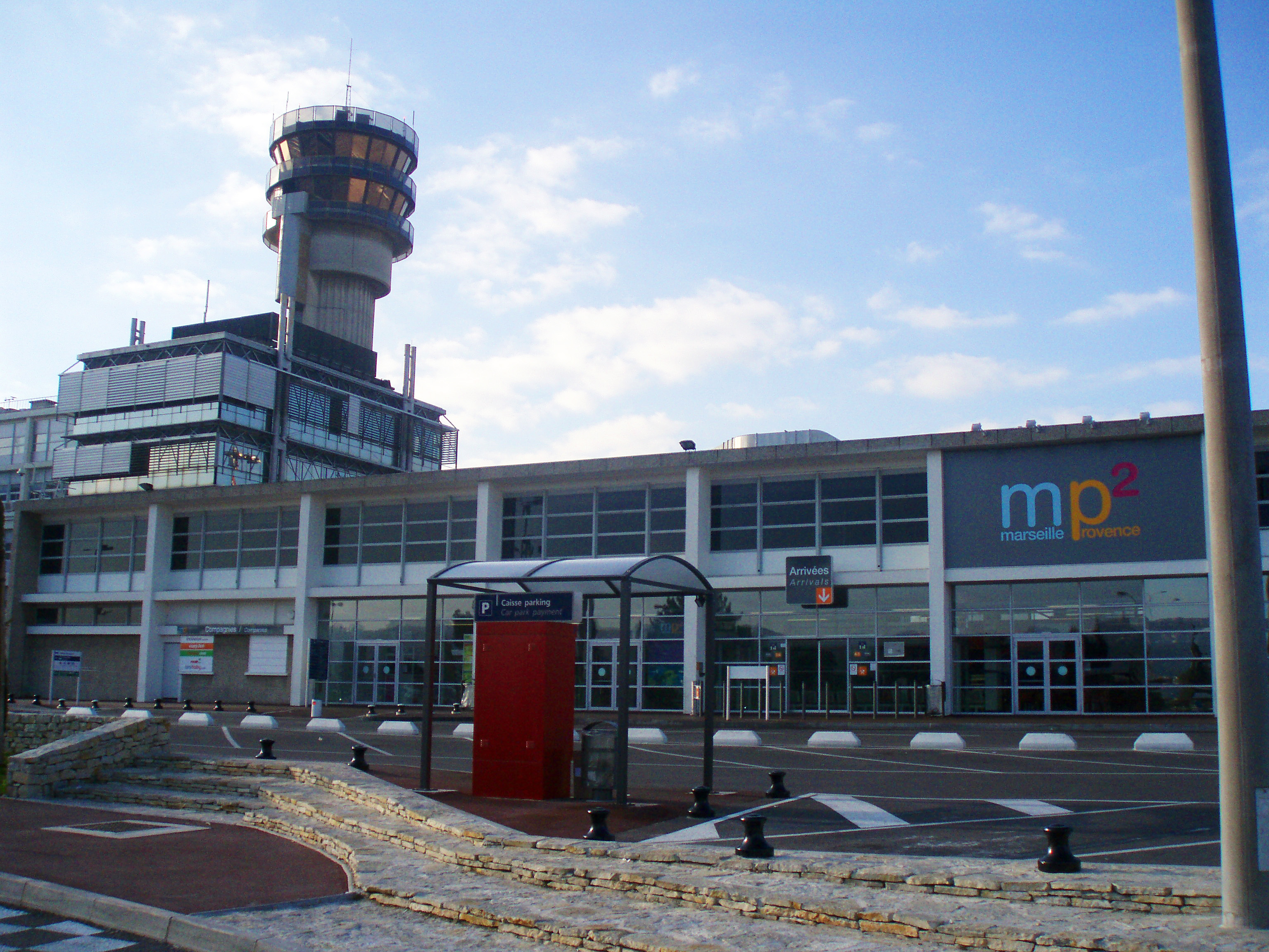 Marseille Provence Airport